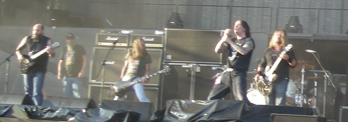 Down live in bologna